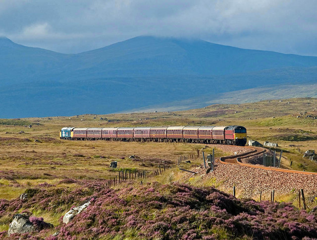 A railtour returning from Fort William